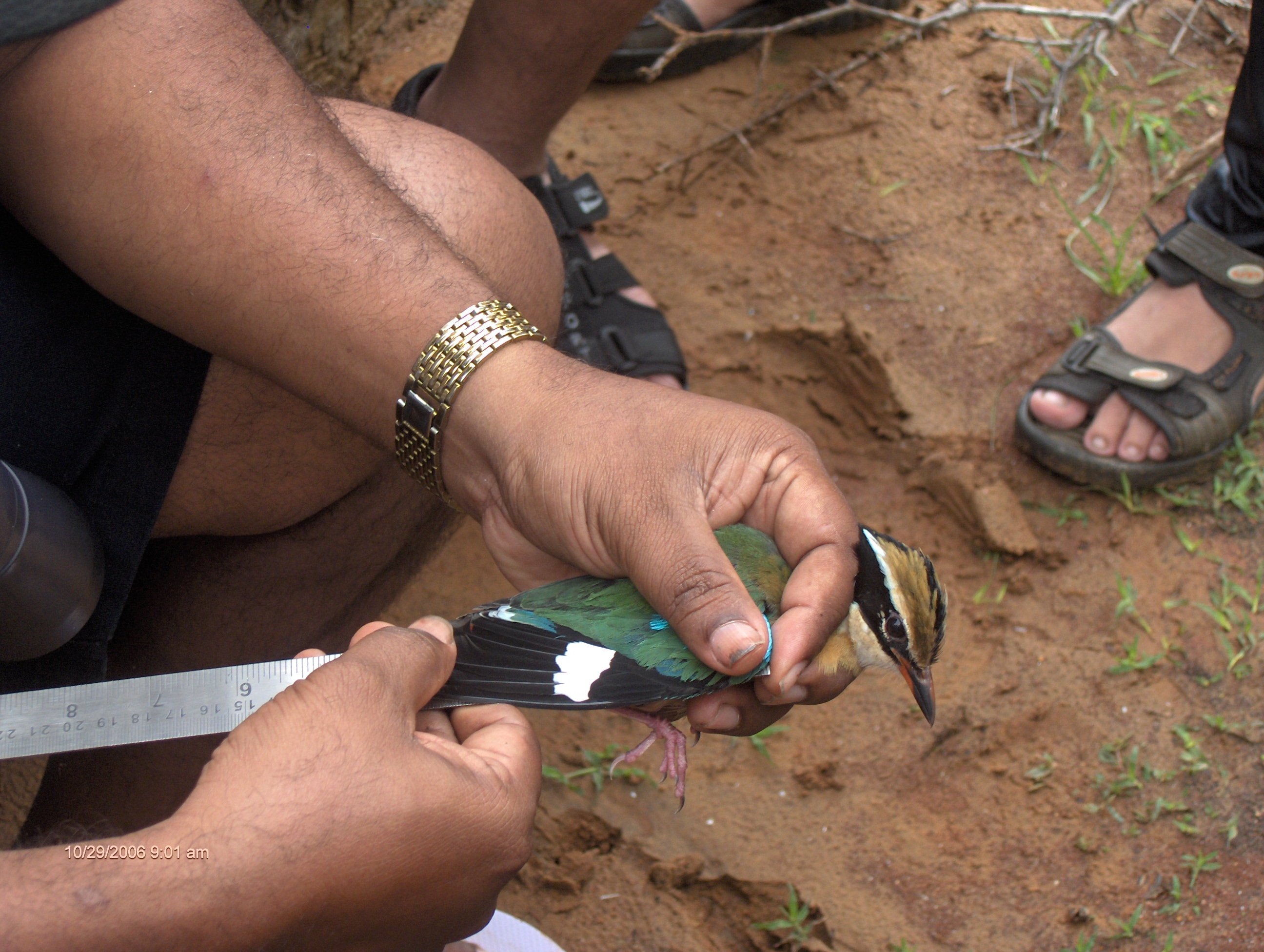 Indian Pitta Pitta brachyura being ringed at Point Calimere.